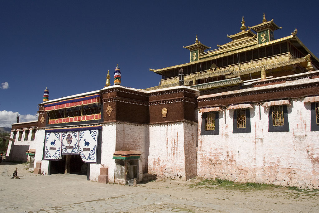 The Samye Monastery or Samye Gompa